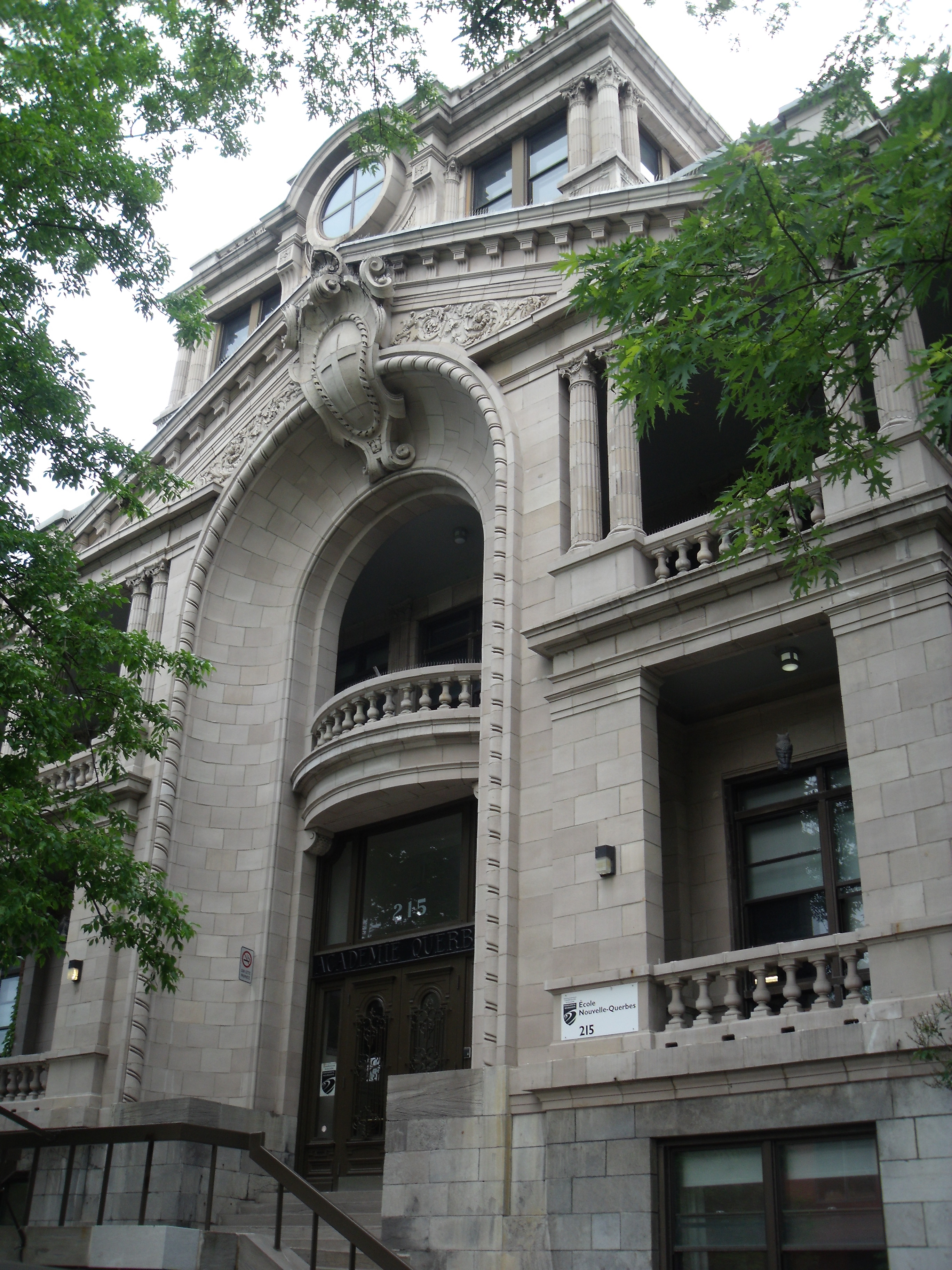 The Académie Querbes Building houses the Nouvelle-Querbes school, 215 Bloomfield avenue, Outremont, Quebec, Canada.